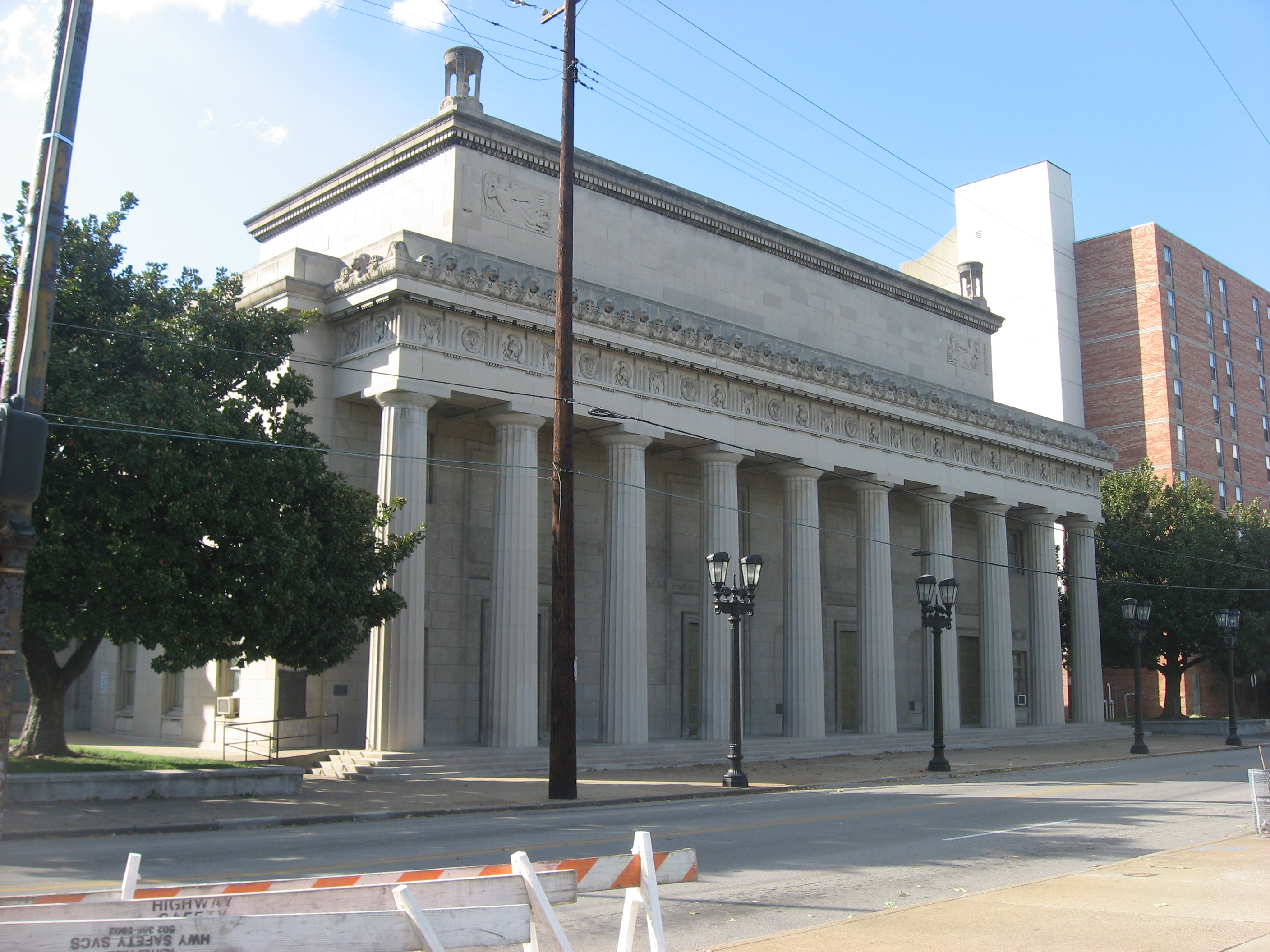 Front of the Louisville War Memorial Auditorium, located at 970 S. Fourth Street in Louisville, Kentucky, United States. Built in 1927, it is listed on the National Register of Historic Places.